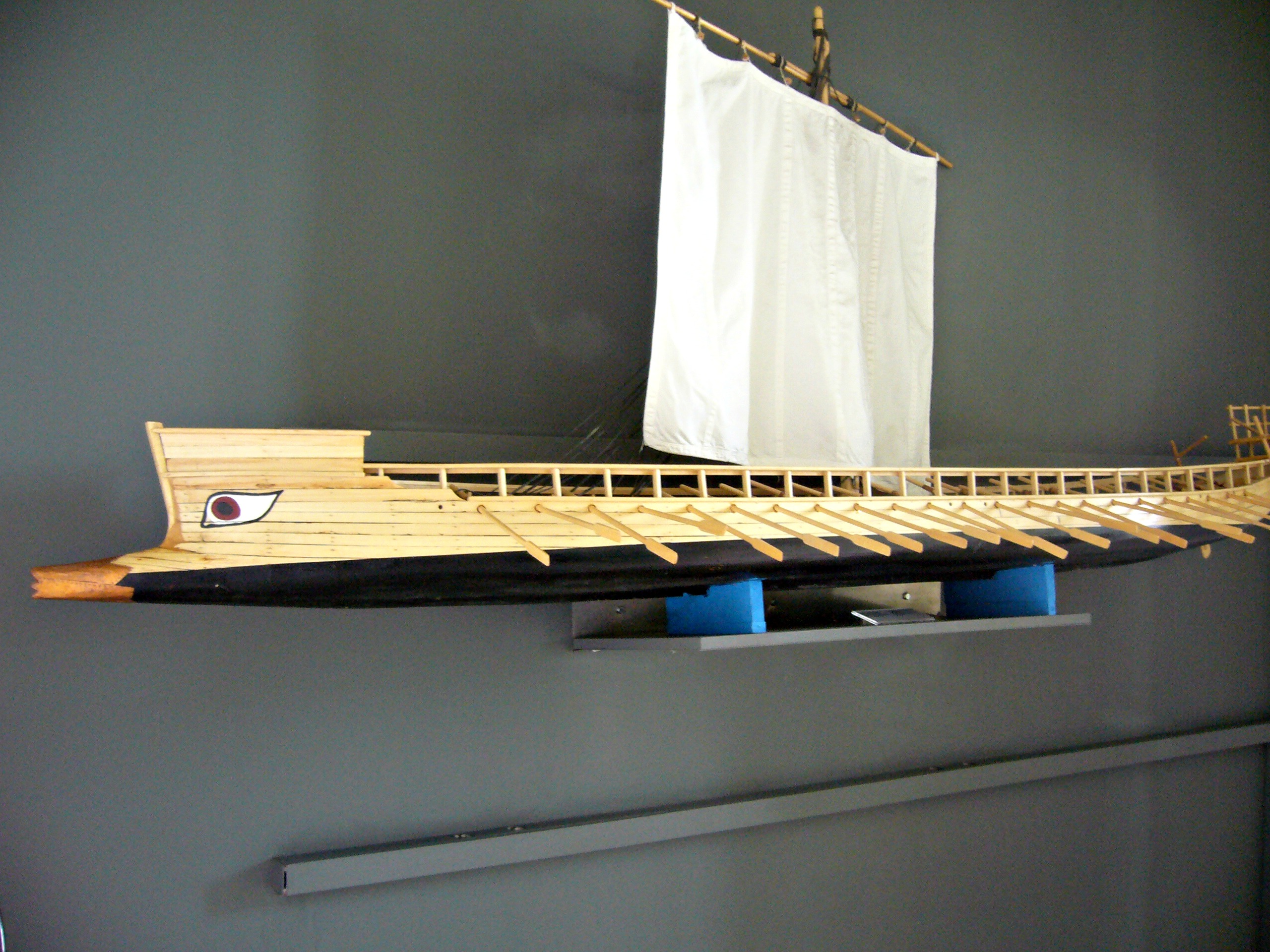 Miniature of homeric period ship, used for military and commersial purposes. Leventis Municipal Museum, Nicosia, Cyprus